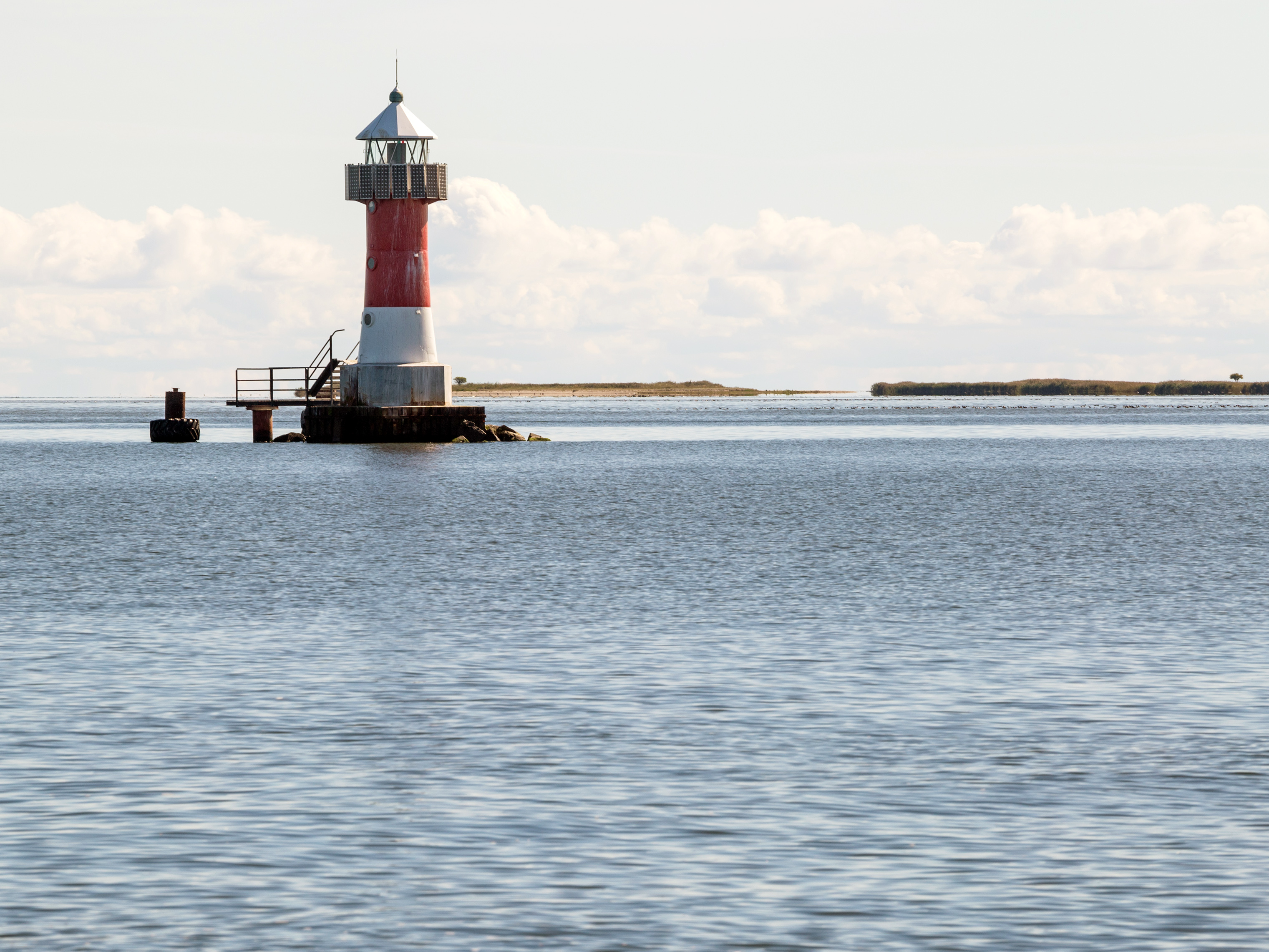 Peenemünde, Lighthouse